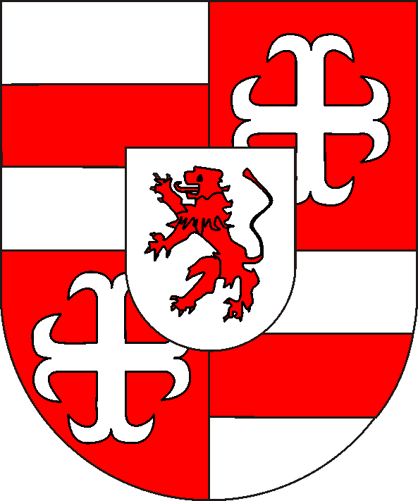 coats of arms of the county of Kriechingen